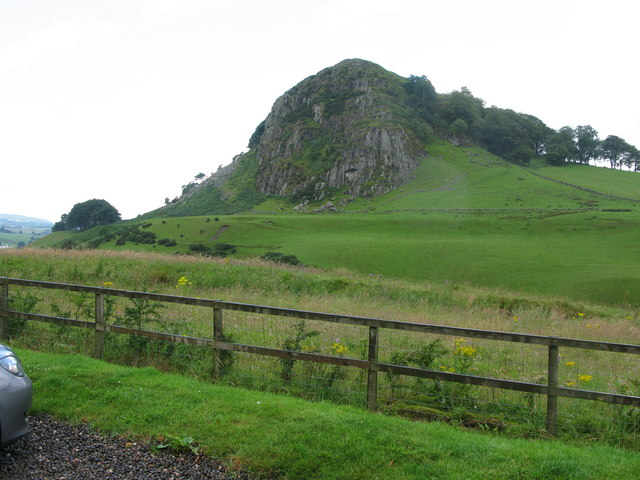 Loudoun Hill Viewed from the Car Park.